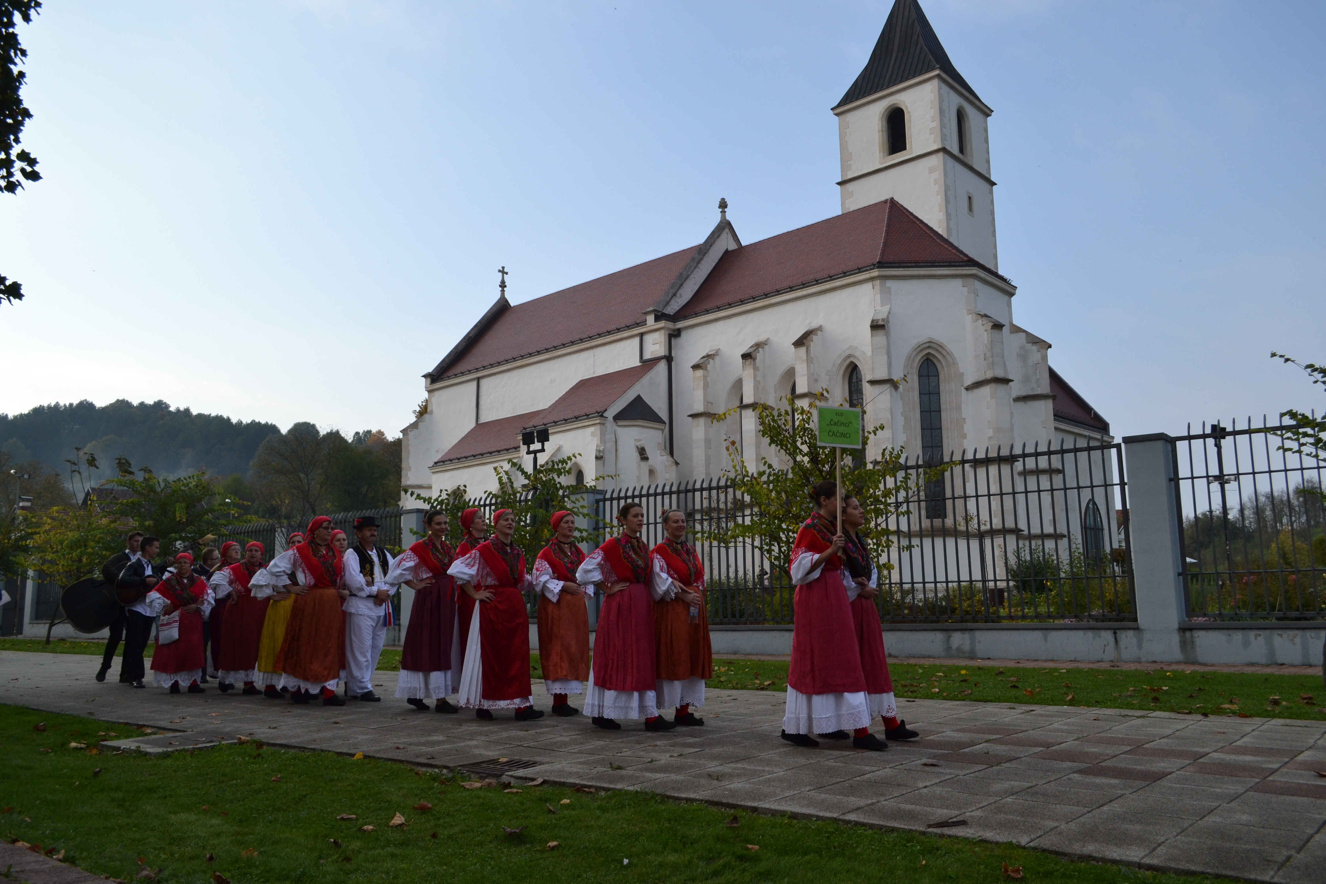 Cultural event "Voćinska kestenijada" and Catholic Church of St. Mary, Mother of God